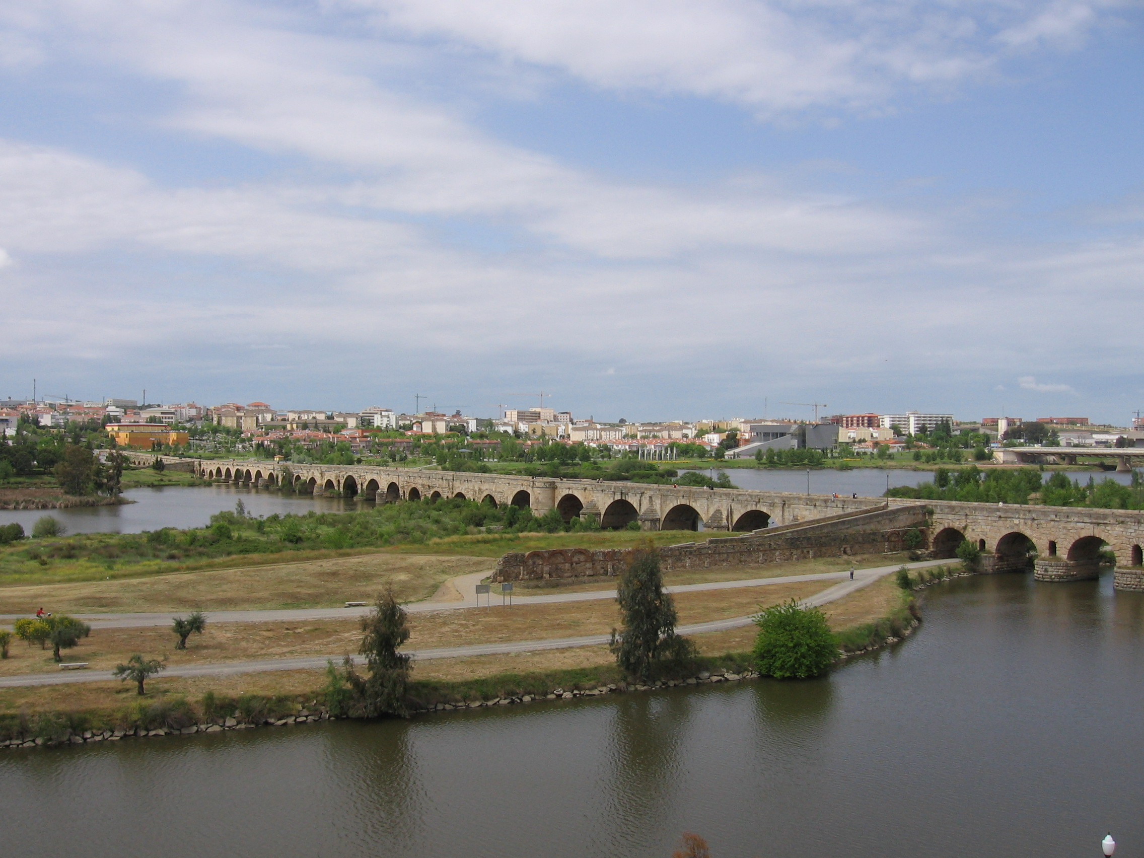 Roman bridge over the Guadiana river in Mérida, Extremadura, Spain